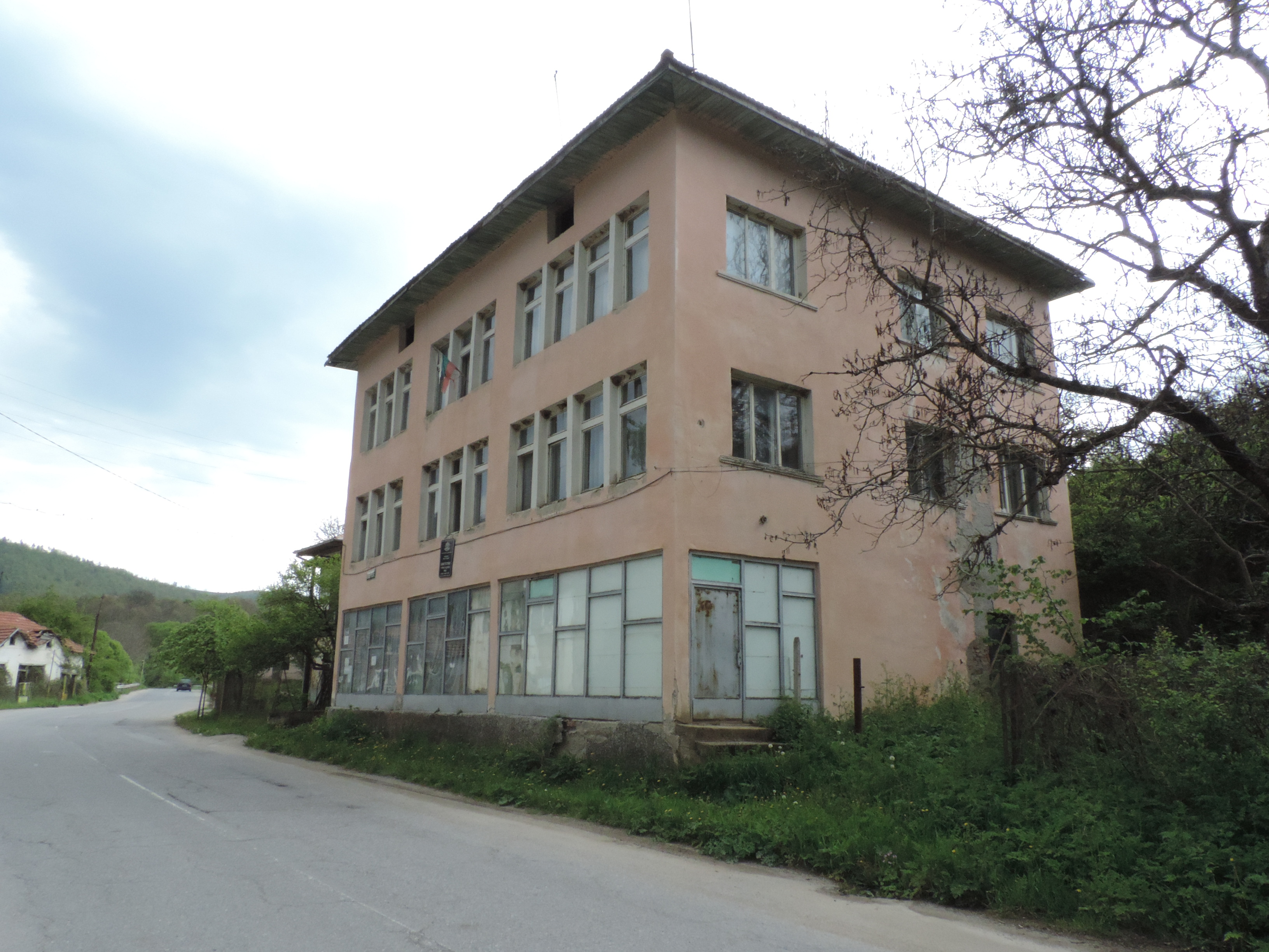 The mayor's office in village Dolno Uyno, Kyustendil Province, Bulgaria